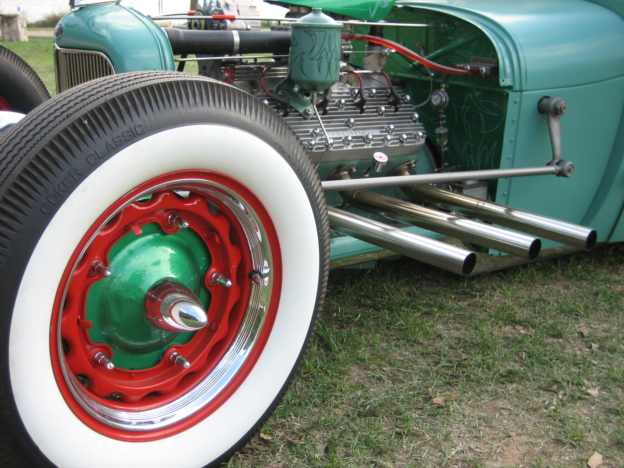 Hot Rod detail Lonestar Rod & Kustom Roundup